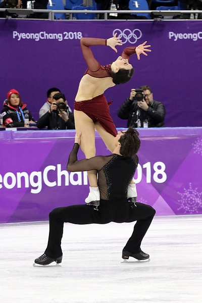 Tessa Virtue and Scott Moir at the 2018 Winter Olympic Games in PyeongChang